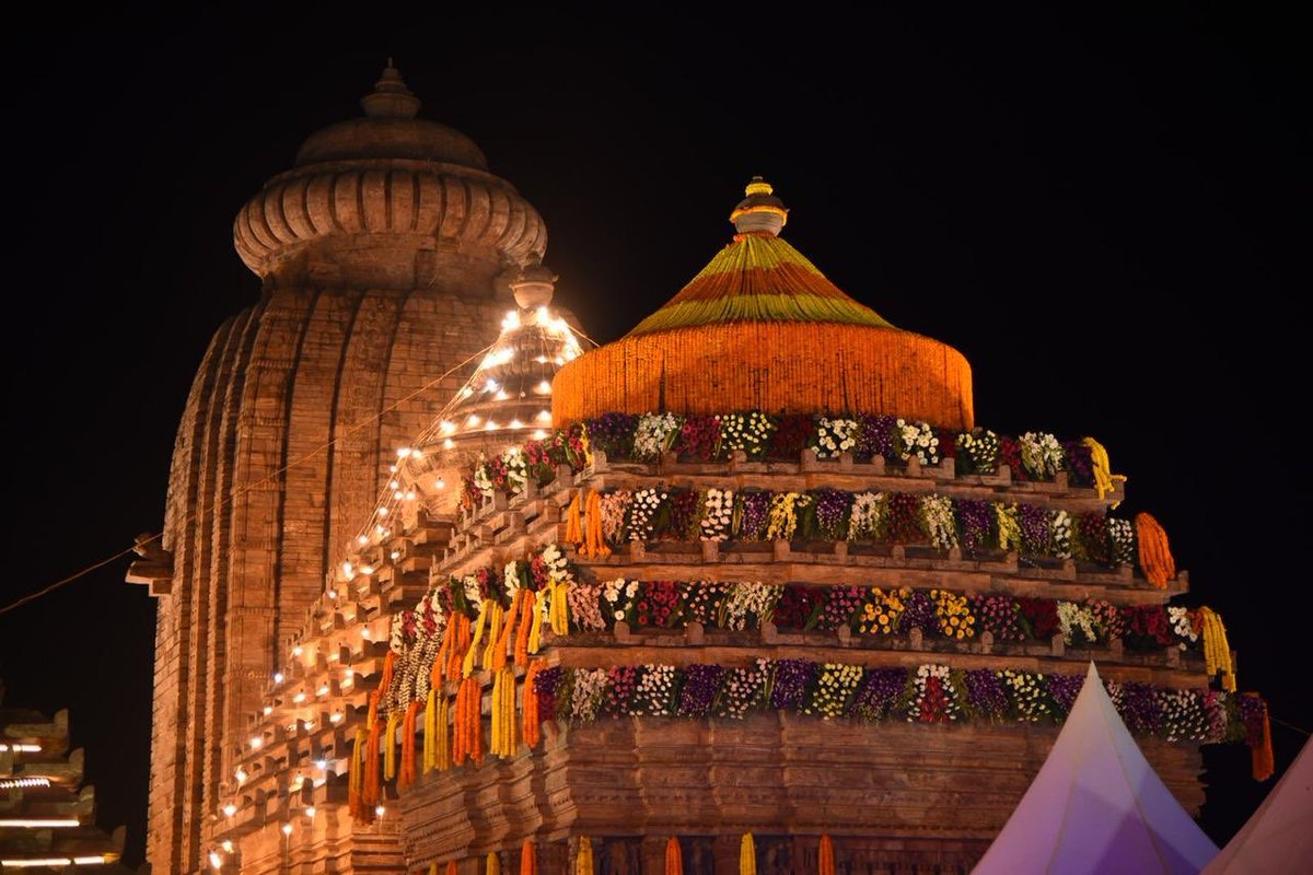 Tweet Text: ପବିତ୍ର ଚୈତ୍ର ପର୍ବ ଉପଲକ୍ଷେ ମା' ତାରାତାରିଣୀଙ୍କ ପୀଠ ସଜେଇ ହୋଇ ବେଶ ମନୋରମ ଲାଗୁଛି। ମା'ଙ୍କ ଆଶୀର୍ବାଦ ଲାଭ କରିବାକୁ ଆସୁଥିବା ଶ୍ରଦ୍ଧାଳୁମାନଙ୍କ ପାଇଁ ଏହା ଏକ ଦିବ୍ୟ ତଥା ଆଧ୍ୟାତ୍ମିକ ପରିବେଶ ଭେଟିଦେବ।